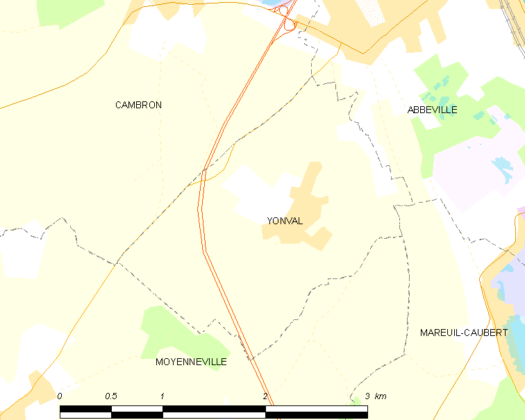 Map of French municipality Yonval